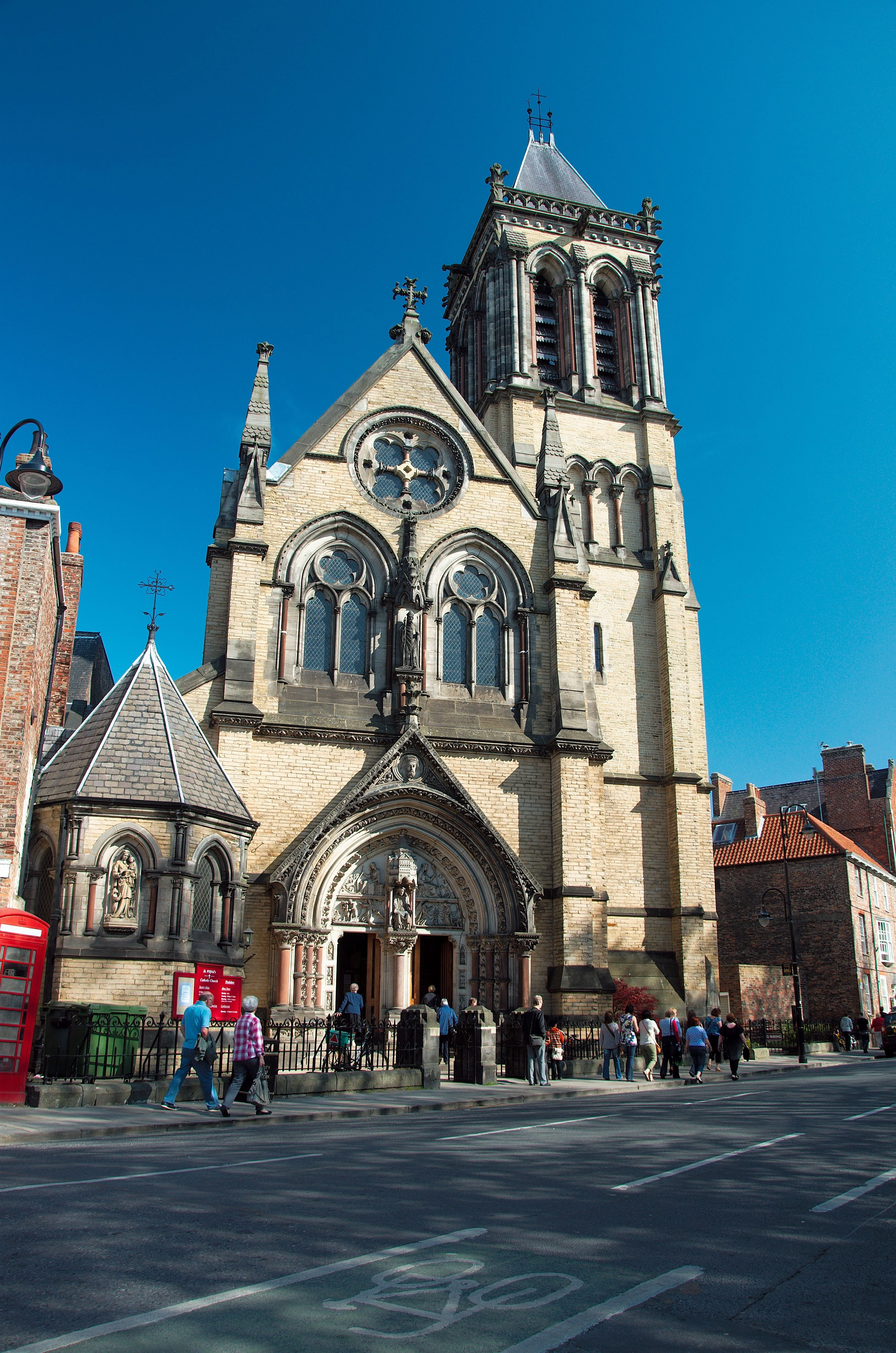 York